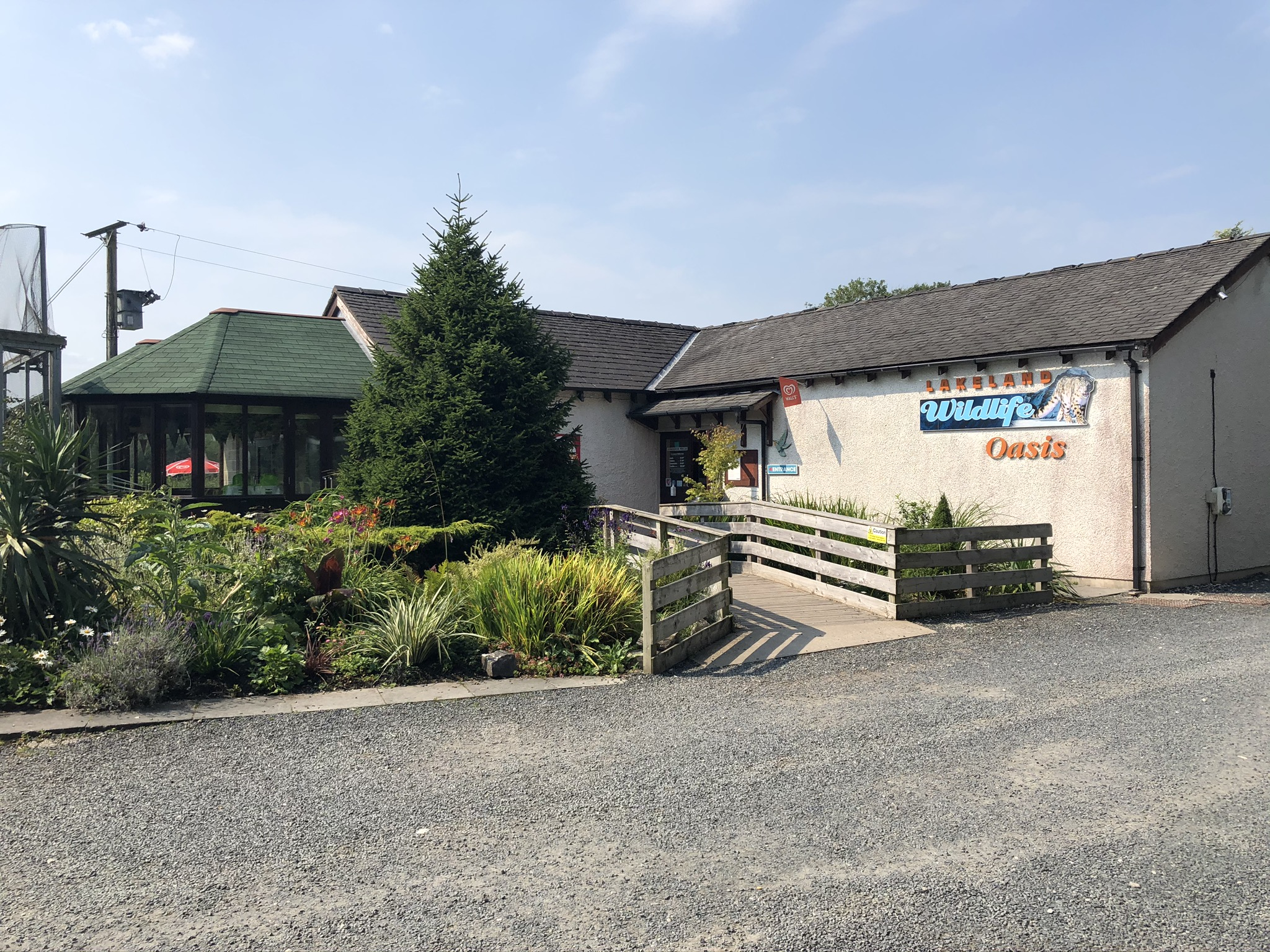 The image shows the entrance to Lakeland Wildlife Oasis.